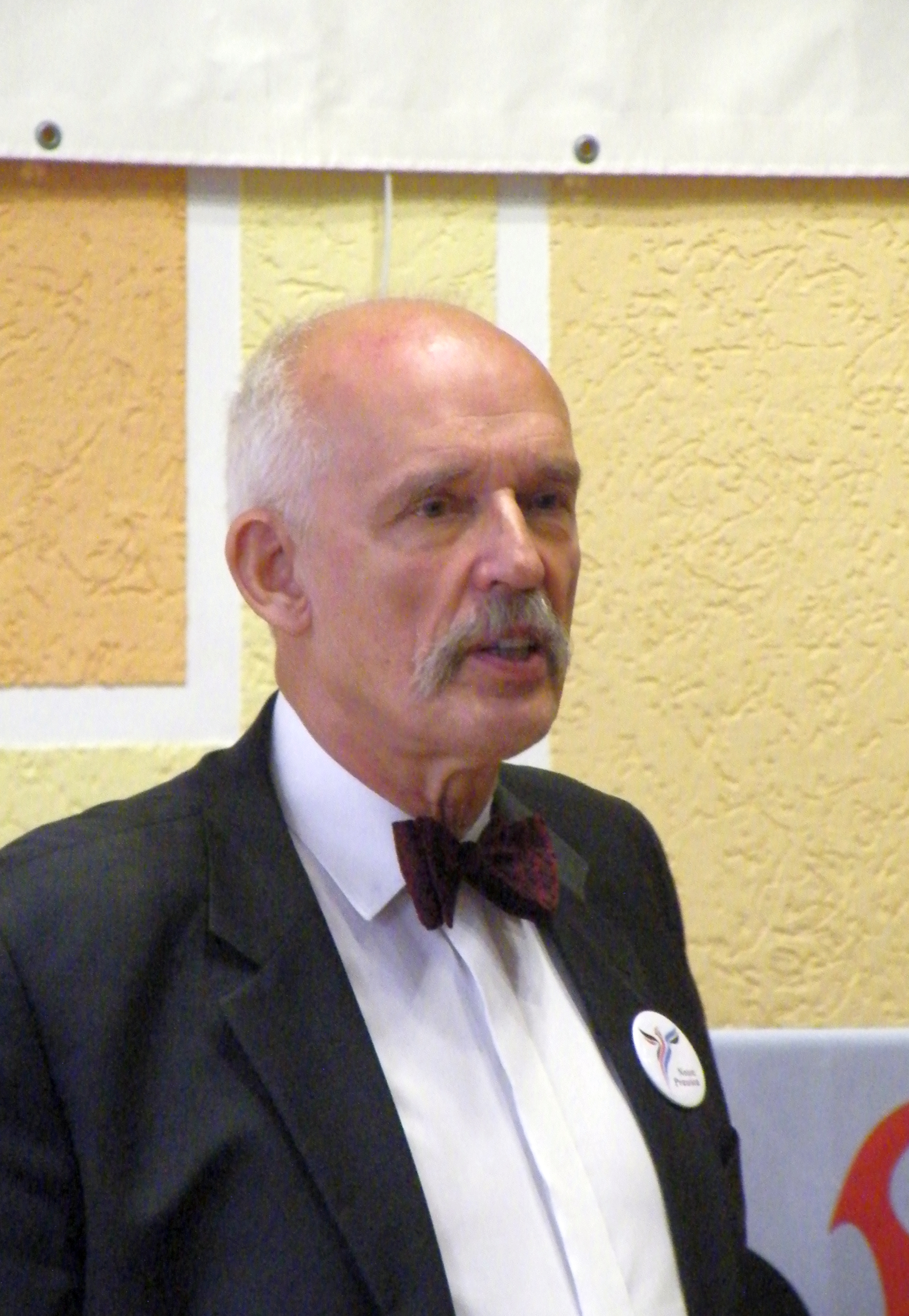 Kongres Nowej Prawicy's Leader - Janusz Korwin-Mikke at meeting in Konin.